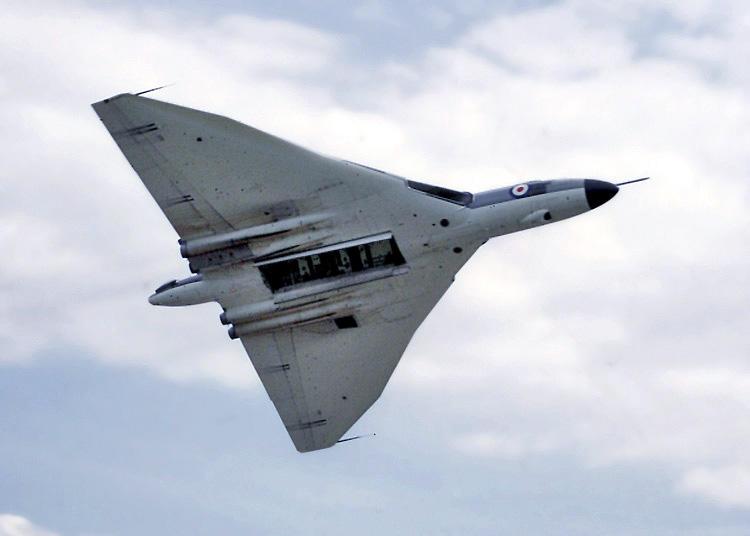 Royal Air Force Avro 698 Vulcan B.1, date unknown. Photographed by Adrian Pingstone (early 60's?) and released to the public domain.